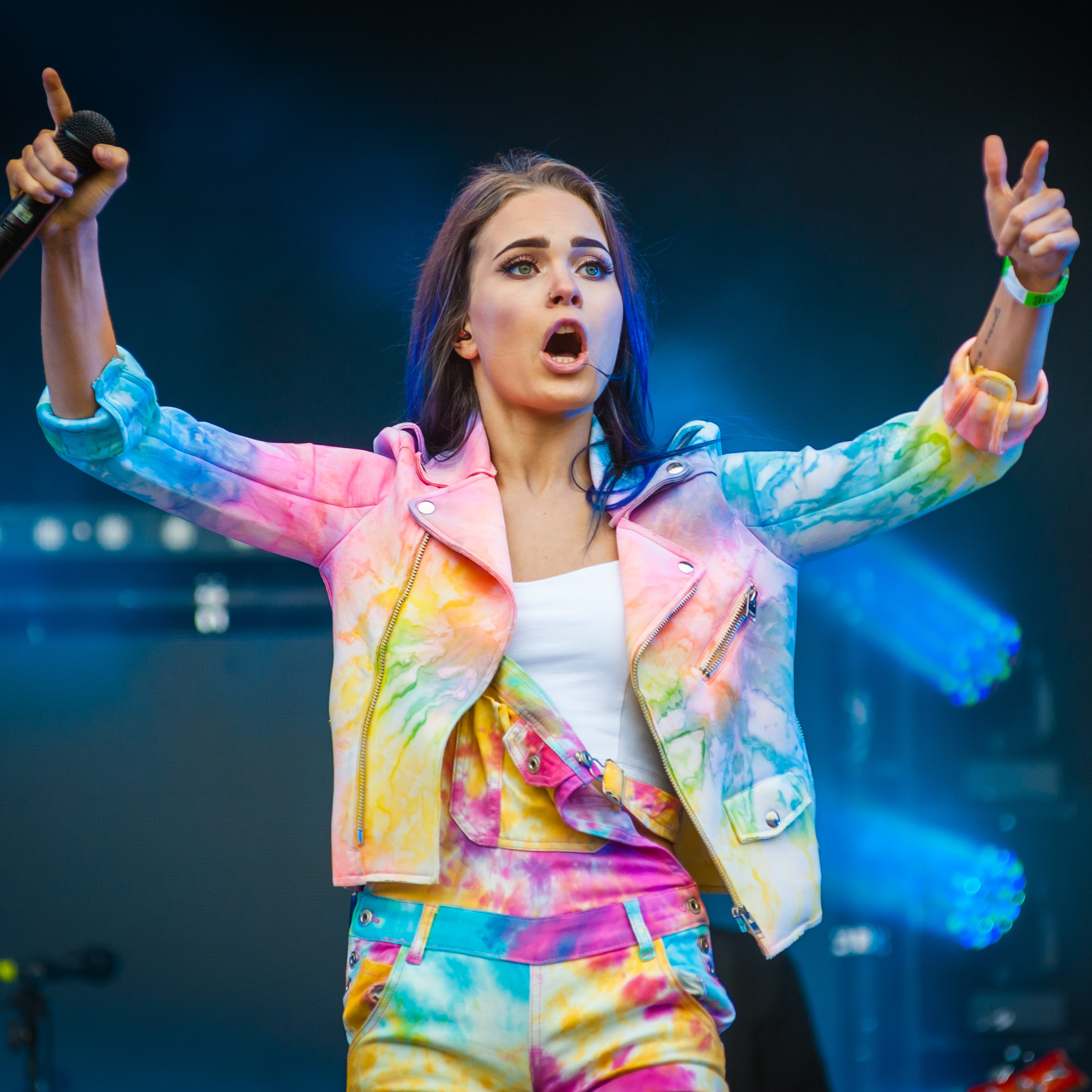 A cropped version of File:Sanni - Ilosaarirock 2016 - 09.jpg